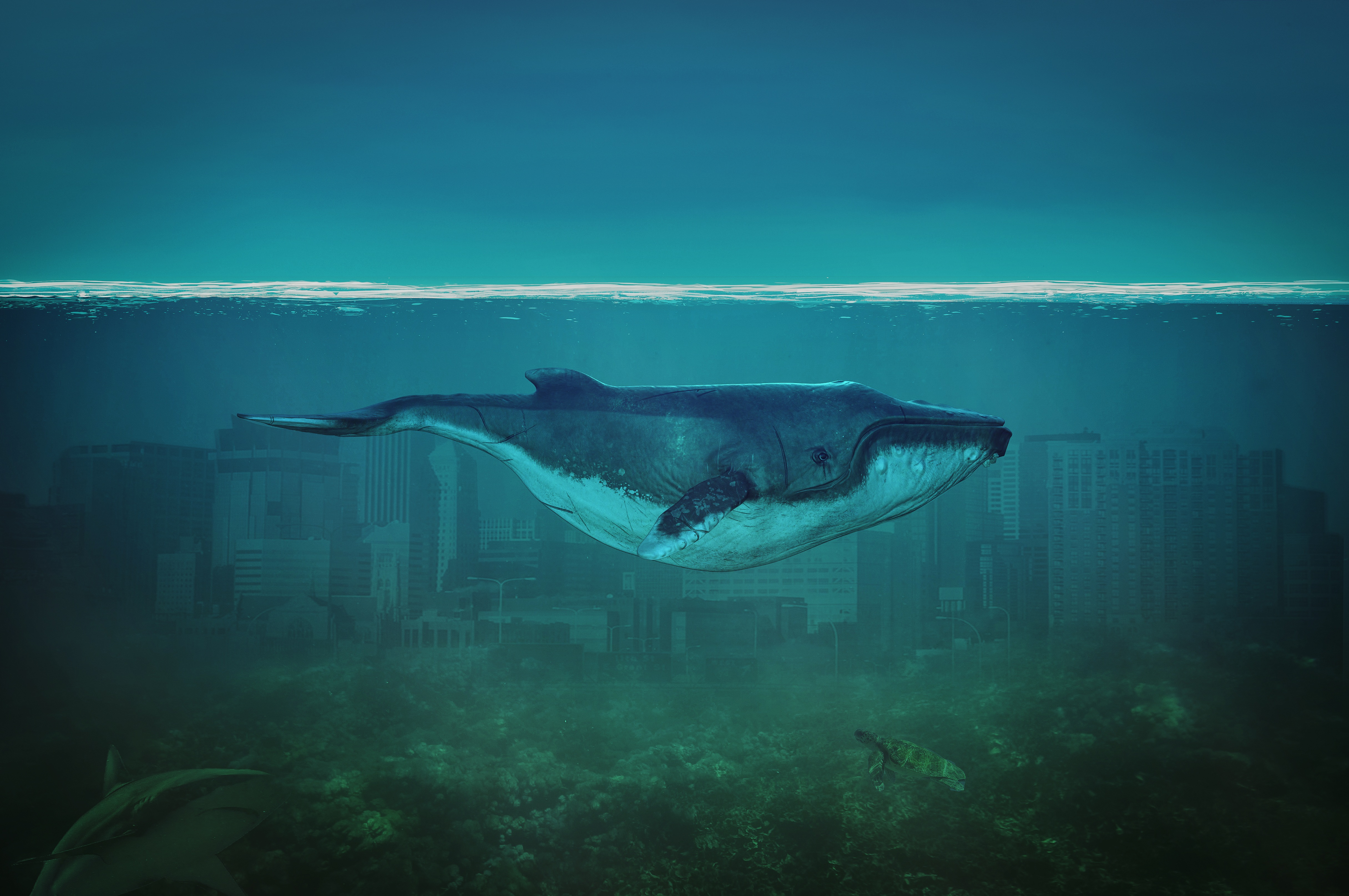 Blue Whale painting